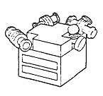 Voyager spacecraft - Cosmic Ray System